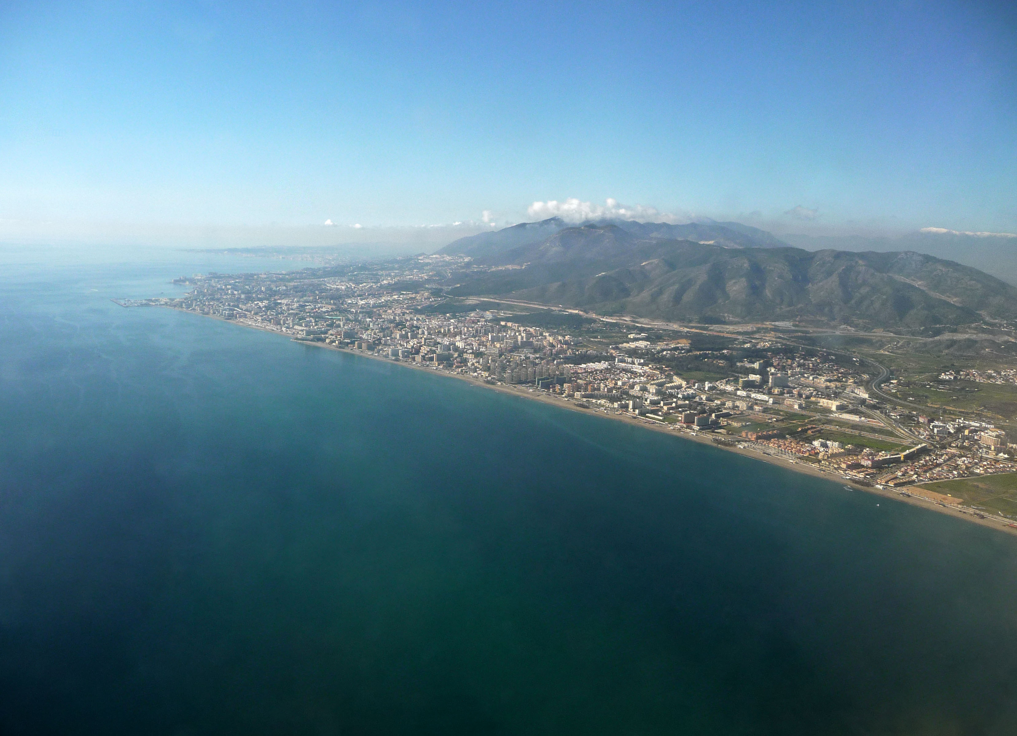 Spain by air